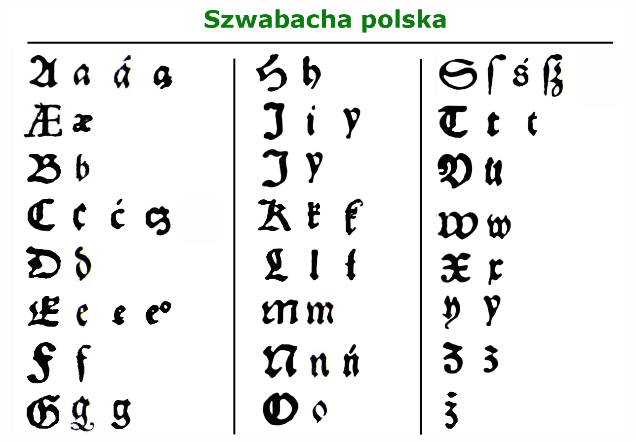 Common font used in polish printing houses in XVI and XVII Centuries.